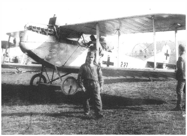 Oeffag C.II